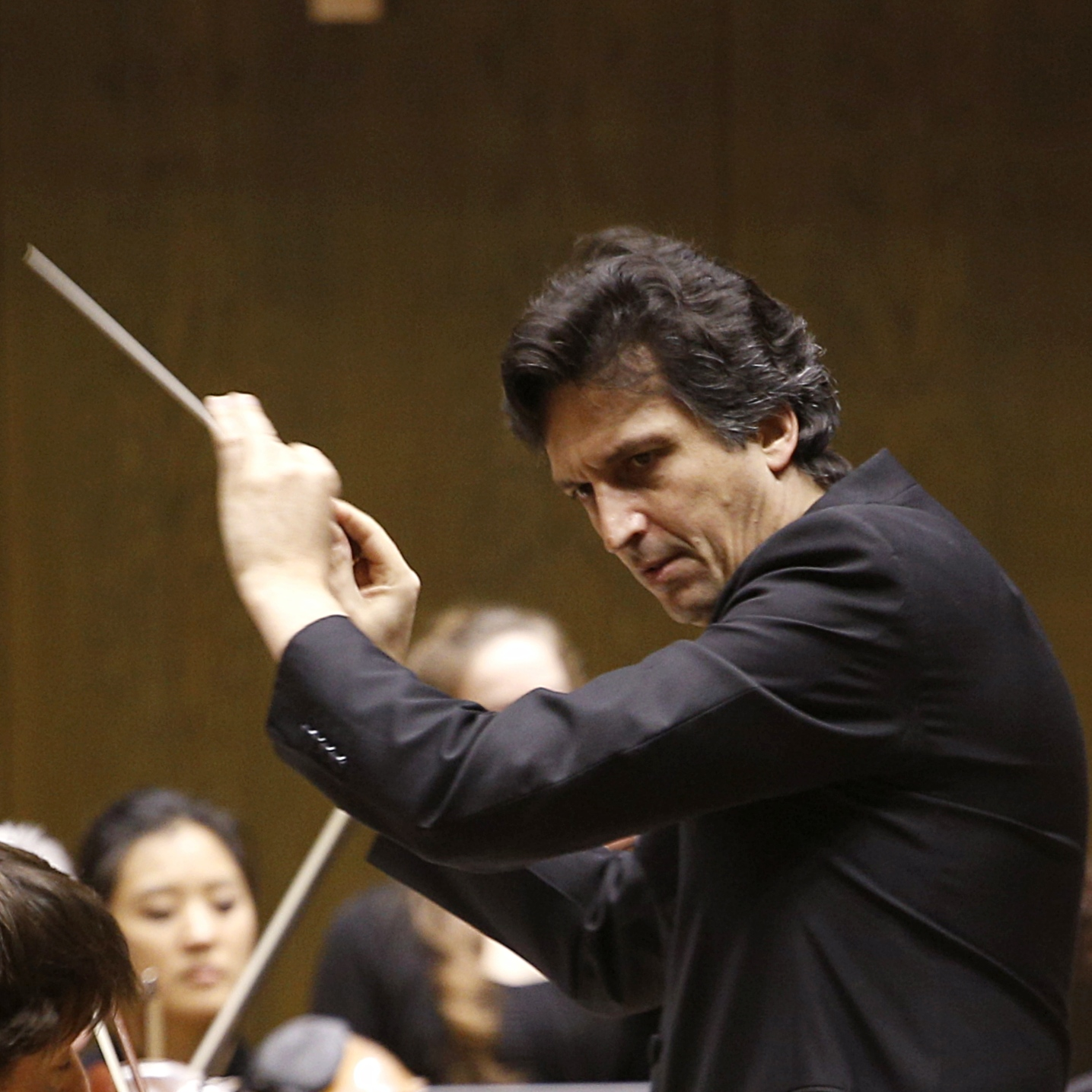 Conductor Michael Sanderling